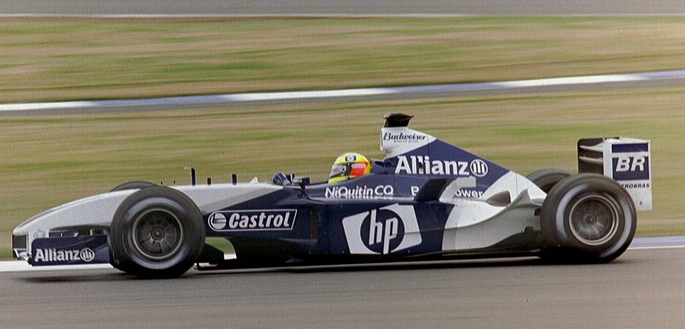 Ralf Schumacher, driving his Williams BMW at the 2003 British Grand Prix.